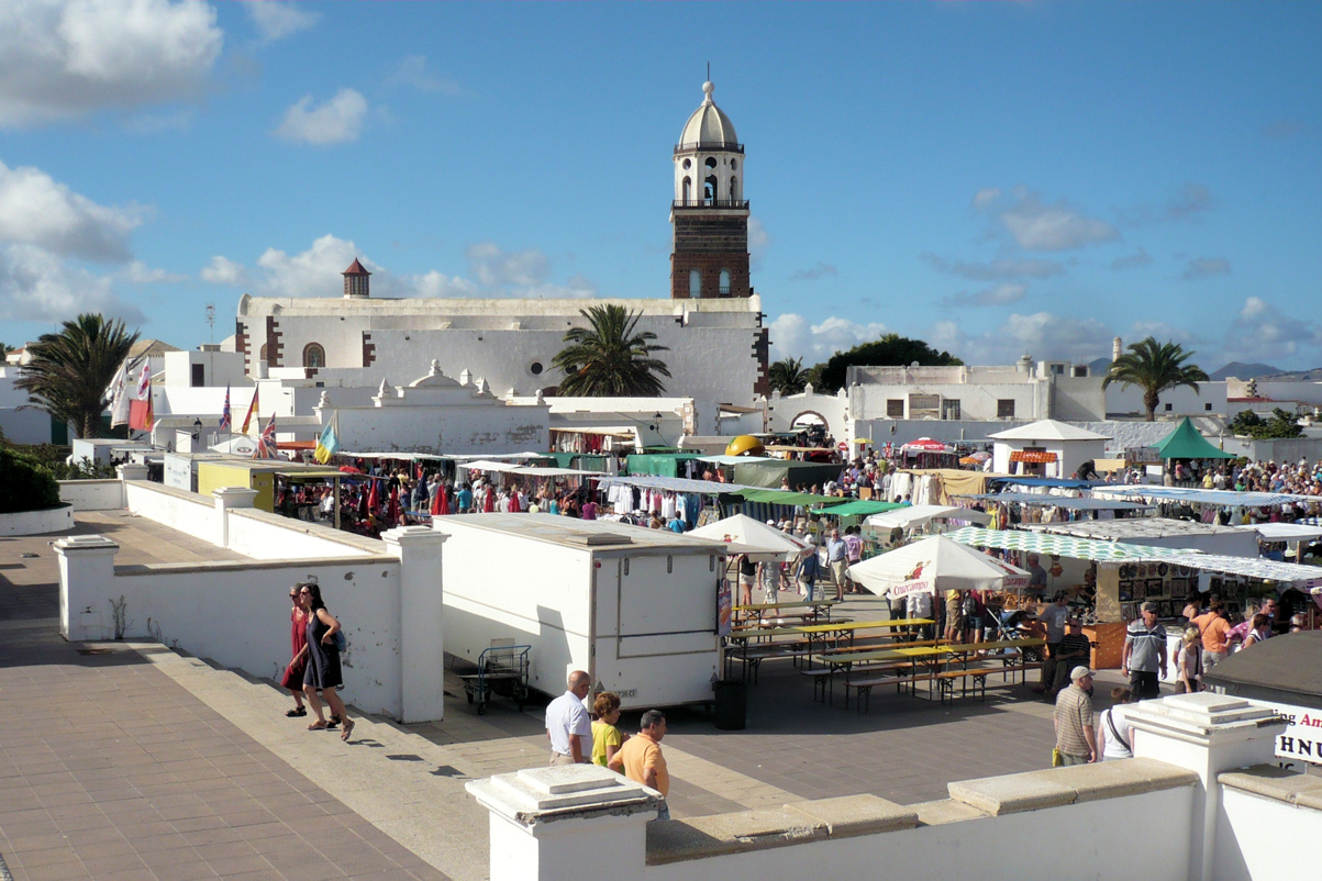 Market in Teguise, Lanzarote, Canary Islands, Spain